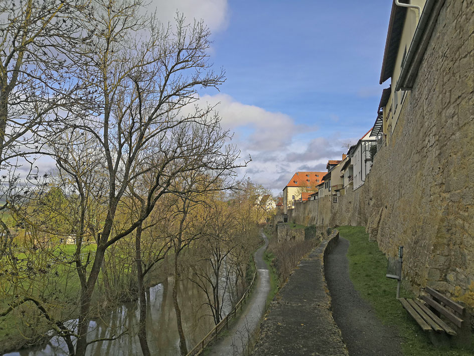 Mellrichstadt city ​​wall